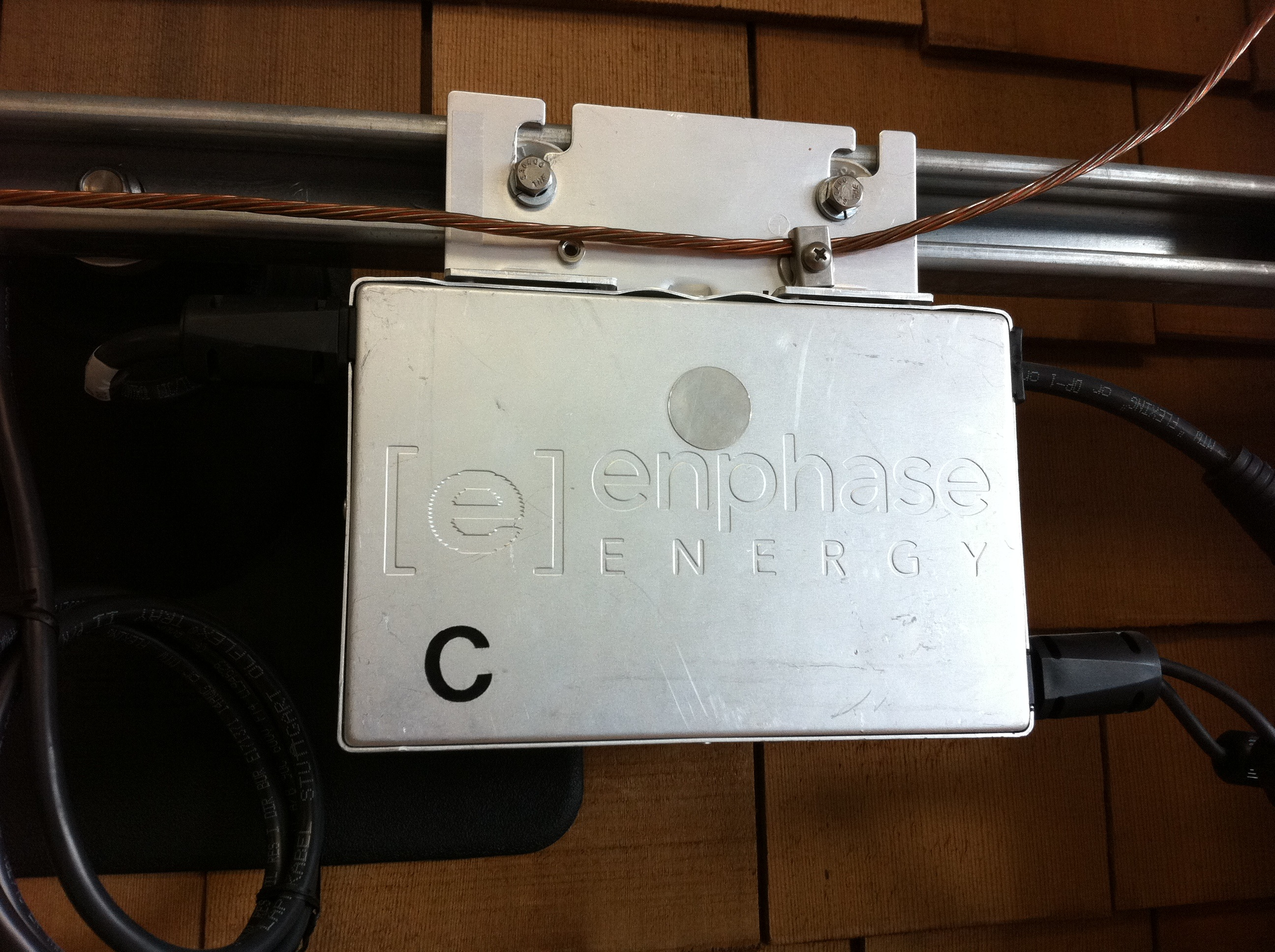 An Enphase M190 microinverter in the process of being installed. It has been mounted to the rail and the frame grounding wire has been attached. The panel's DC wires have been attached prior to placing the panel over this location. The "C" is a label applied by the installer (me).